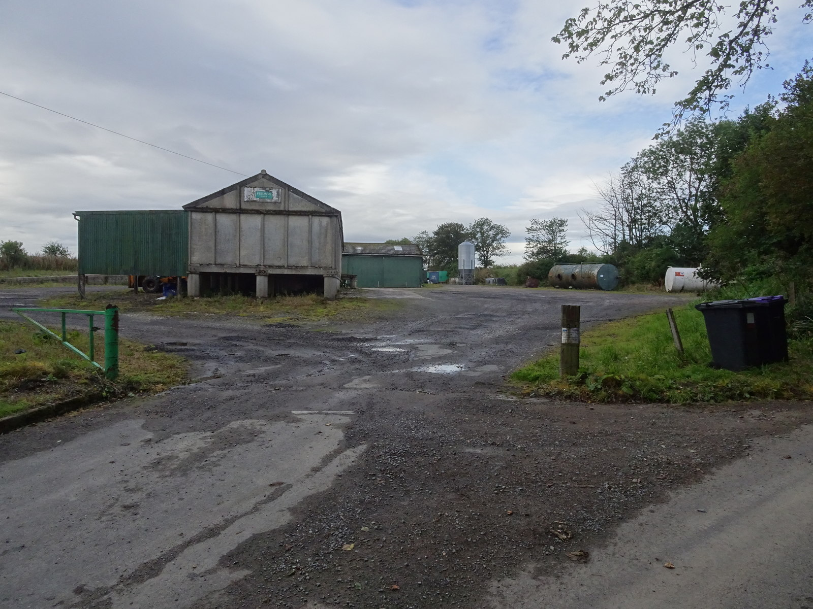 Fyvie railway station (site), AberdeenshireOpened in 1857 by the Banff Macduff & Turriff Junction Railway, later part of the Great North of Scotland Railway, on the line from Inveramsay to Macduff, this station closed to passengers in 1951 and completely in 1966. View south from the former forecourt towards Rothienorman and Inveramsay. The main station building would have been centre-right, with the track running where the tanks are on the far right.